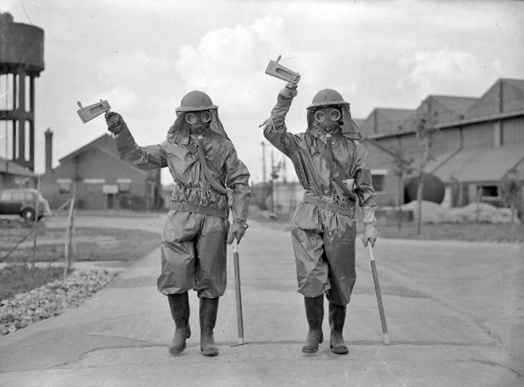 Royal Air Force Bomber Command, 1939-1941. Two airmen dressed in heavy anti-gas clothing and carrying gas detectors, sound warning rattles during a gas exercise at Mildenhall, Suffolk.